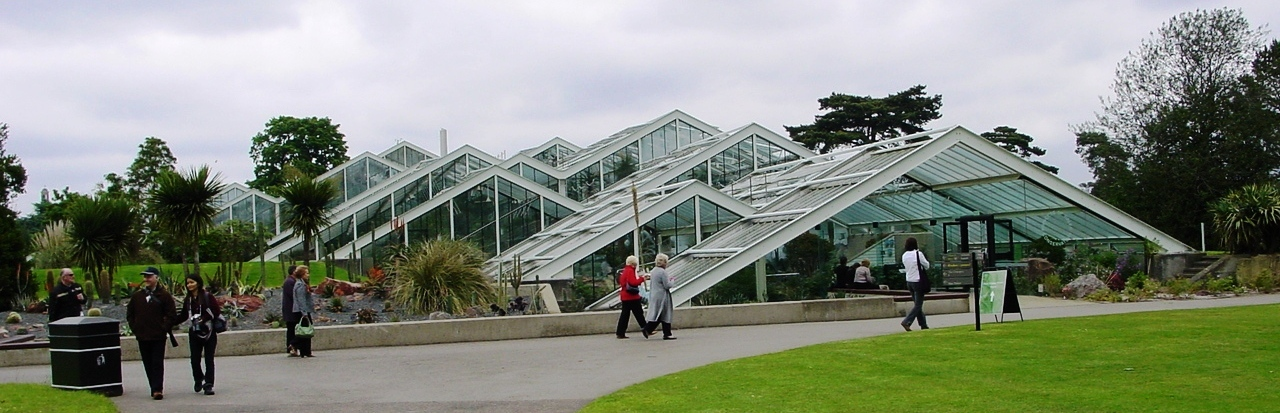 Kew Gardens 2006 Princess of Wales Conservatory